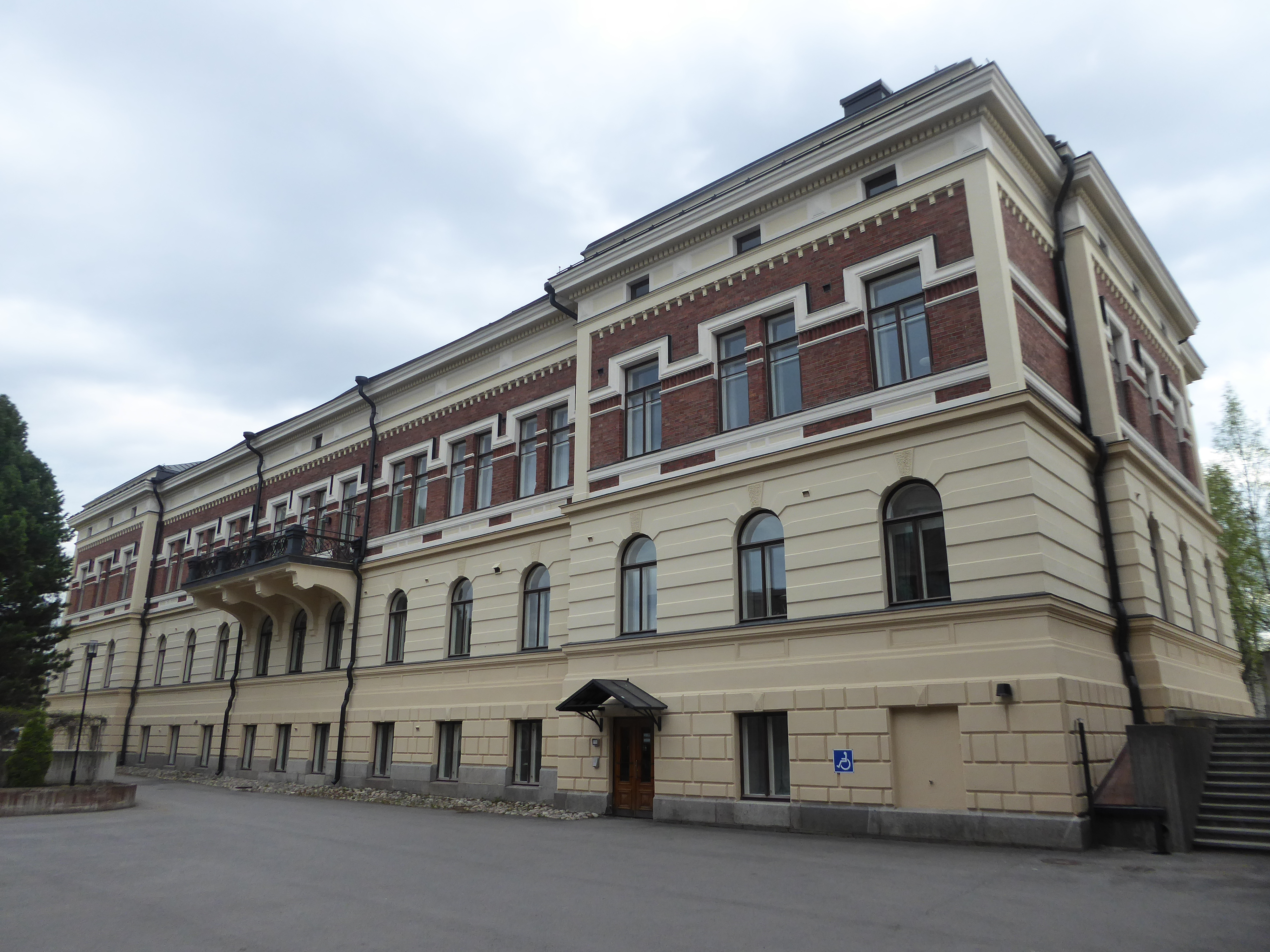 Views of Oulu